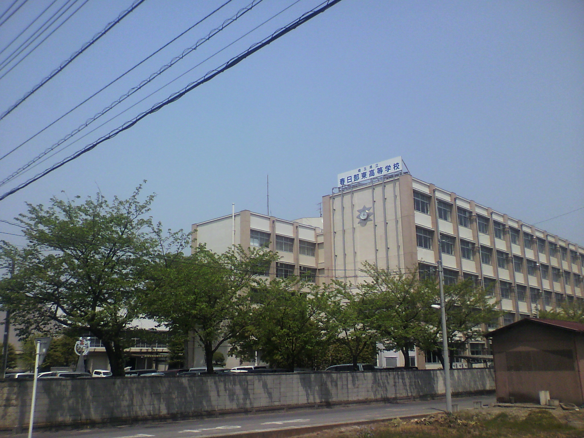 These are buildings of Saitama prefectural Kasukabe-higashi high school.